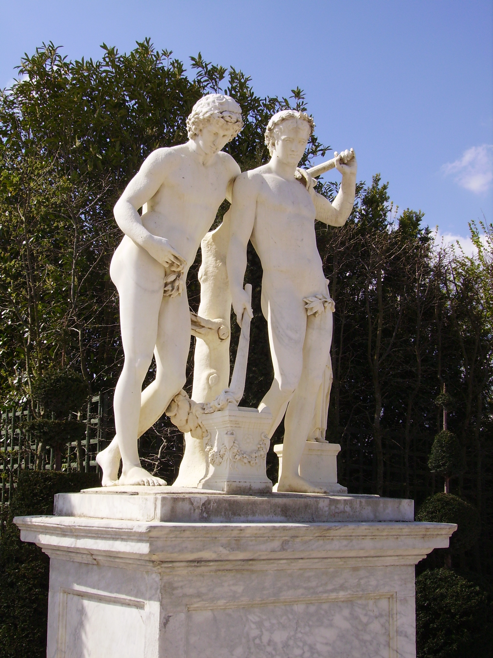 Castor and Pollux